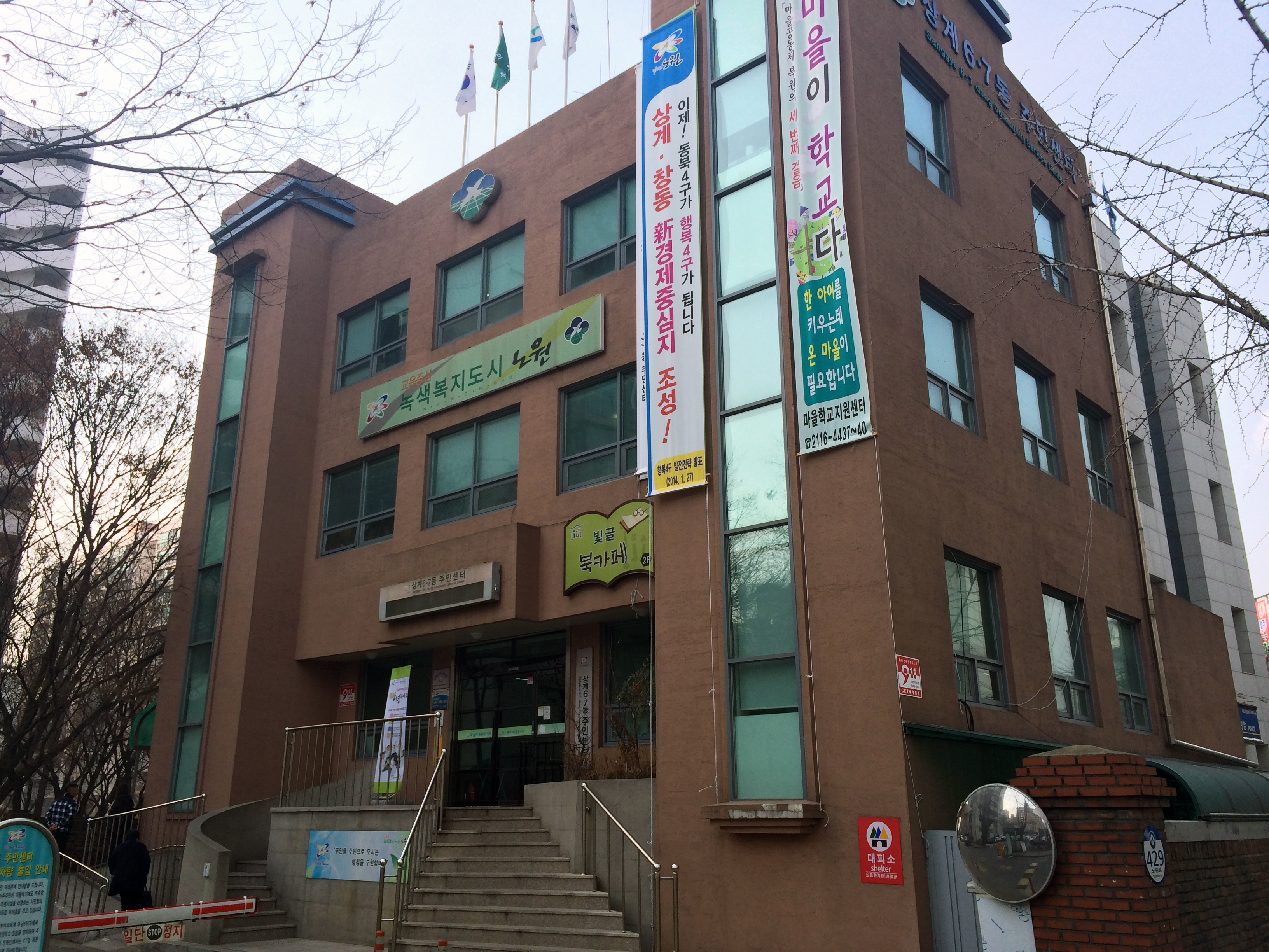 Sanggye 6, 7-dong Comunity Service Center (Nowon-gu)